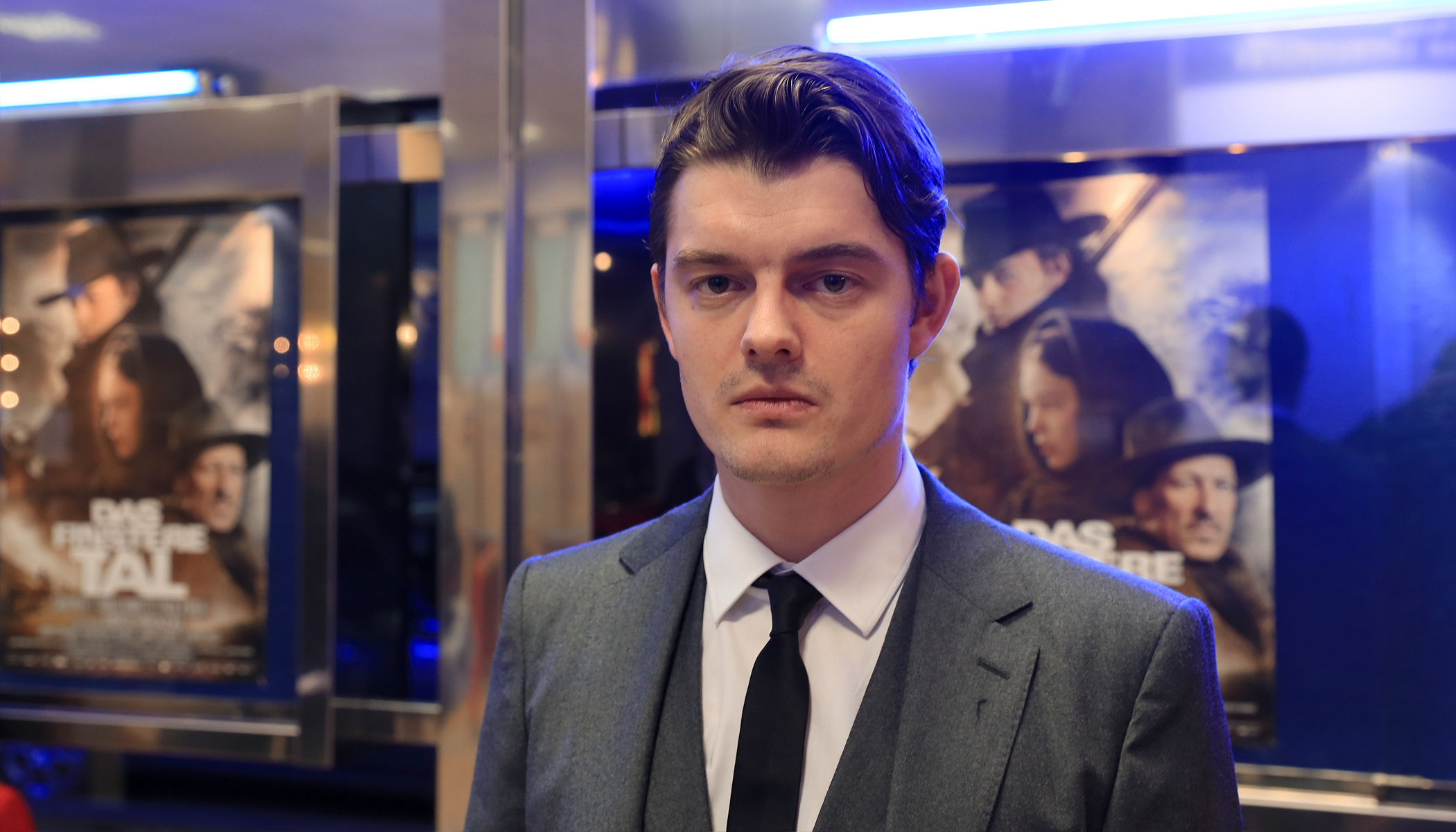 Sam Riley at the Austrian premiere of Das finstere Tal at Gartenbaukino in Vienna.